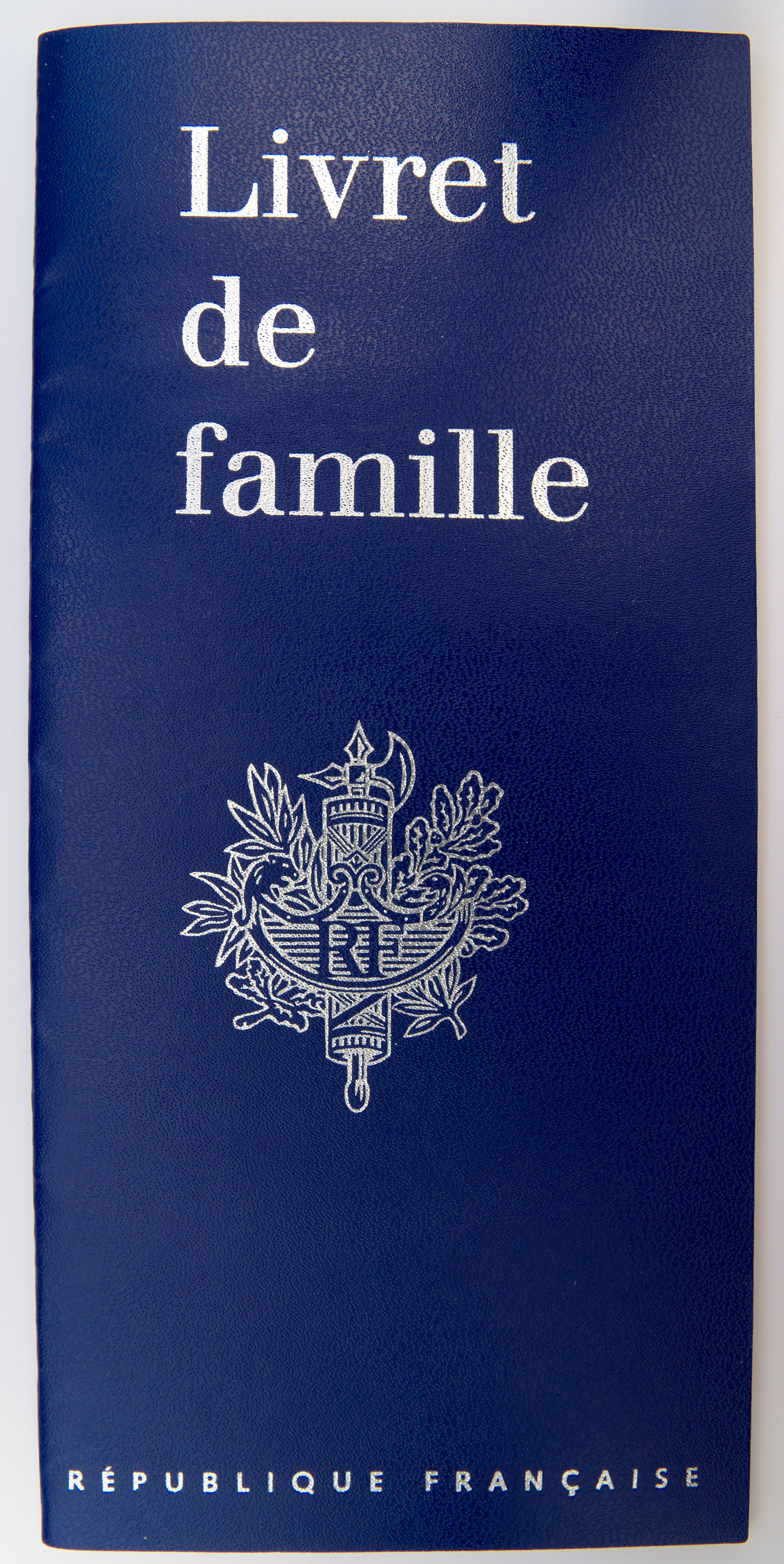 French family register issued in 2005.